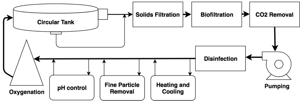 A flow chart for the various water treatment processes needed in a recirculating aquaculture system